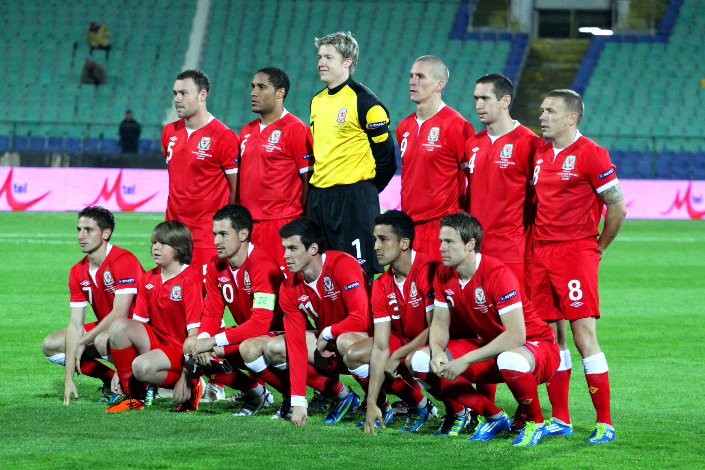 Wales national football team in 2011